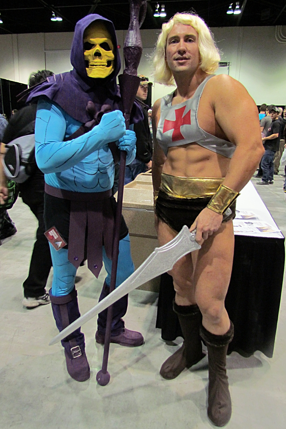 Masters of the Universe is a media franchise created by Mattel. Although featuring a vast line-up of characters, the main premise revolves around the conflict between the heroic He-Man and the evil Skeletor on planet Eternia. Since its initial launch late 1981, the franchise has spawned a variety of products, including six lines of action figures, four animated television series, several comic series, and a feature film. Photo taken at the Calgary Comic and Entertainment Expo, BMO Centre, Calgary, Alberta, Canada.